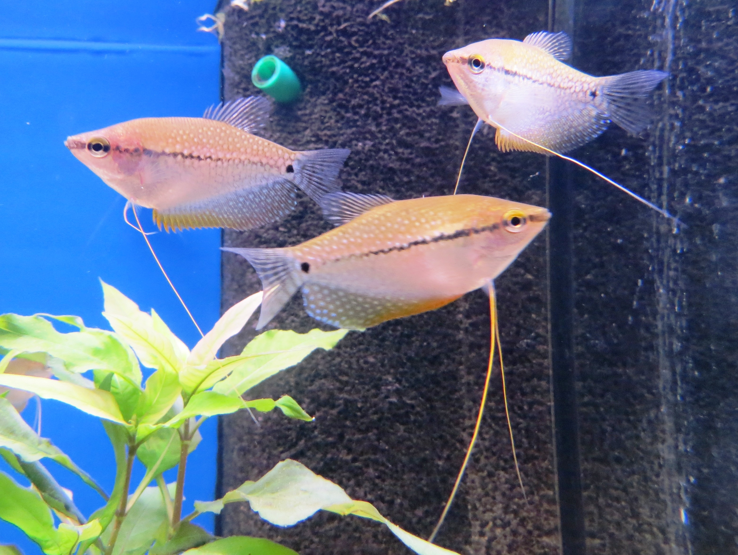 A specie of tropical aquarium fish from Southeast Asia.